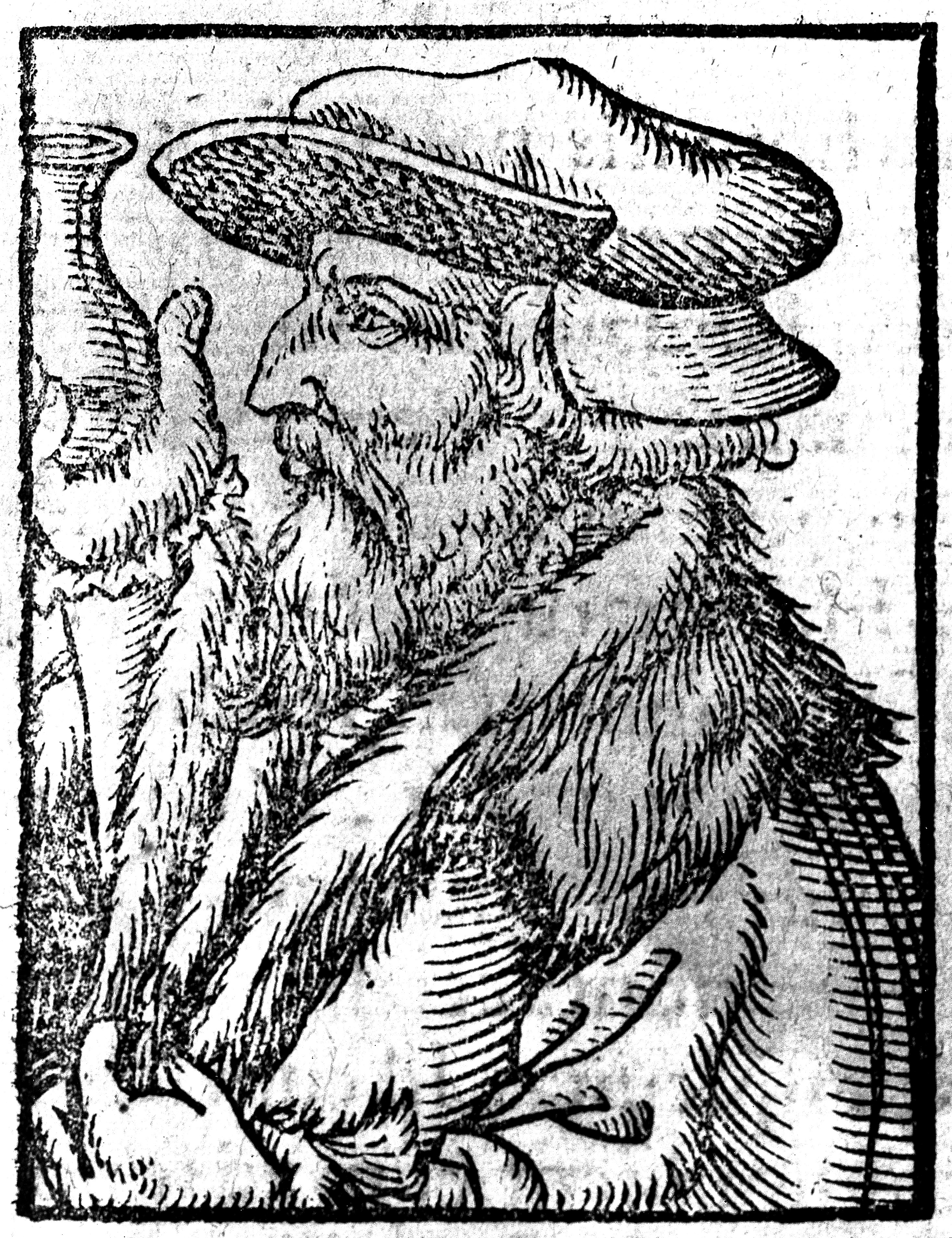 Thomas Erastus Rare Books Keywords: Thomas Erastus